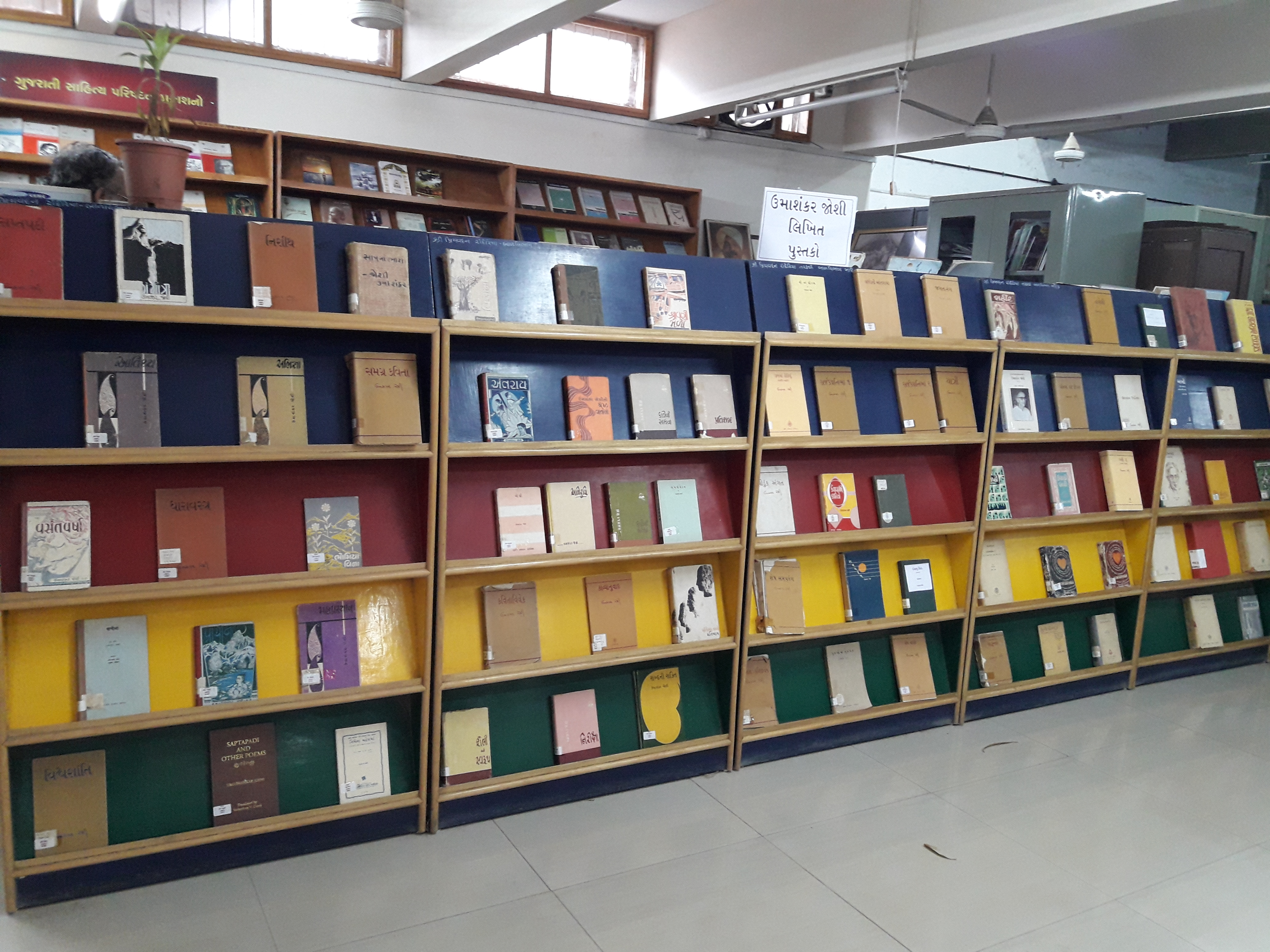 Umashankar Joshi book exhibition at Gujarati Sahitya Parishad